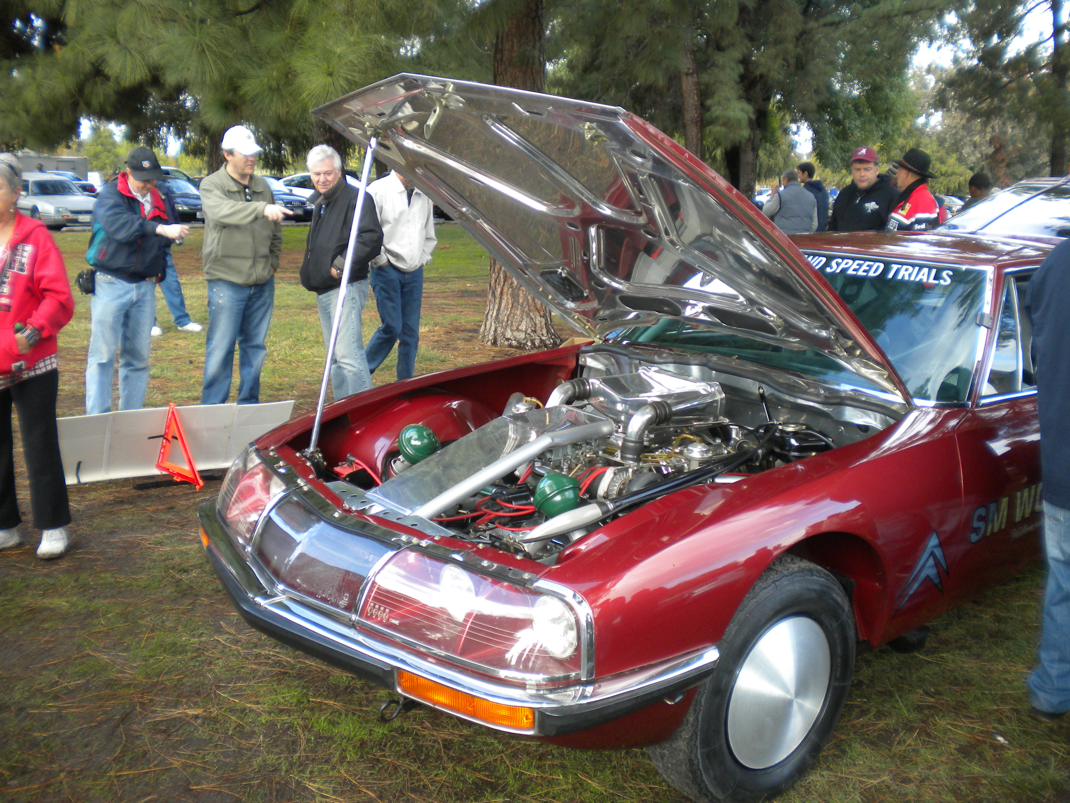 Bonneville land speed record 202 miles per hour 2.7 liter V6 - factory stock body